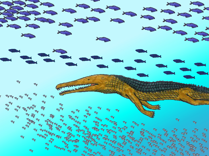 Terminonaris, a marine type of extinct crocodylian from the Cretaceous-period of North-America. This 3-4 meter long pholidosaurid was a carnivore. Fish was probably his main food source.